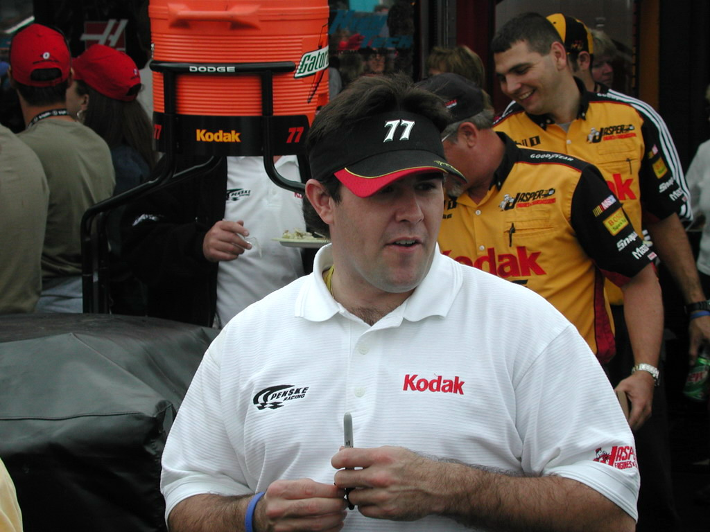 Brendan Gaughan #77 signing autographs and hanging out at his transporter -- very friendly guy